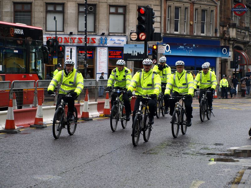 Police on bicycles during Olympic torch relay in London Beijing 2008 Free Tibet Protest